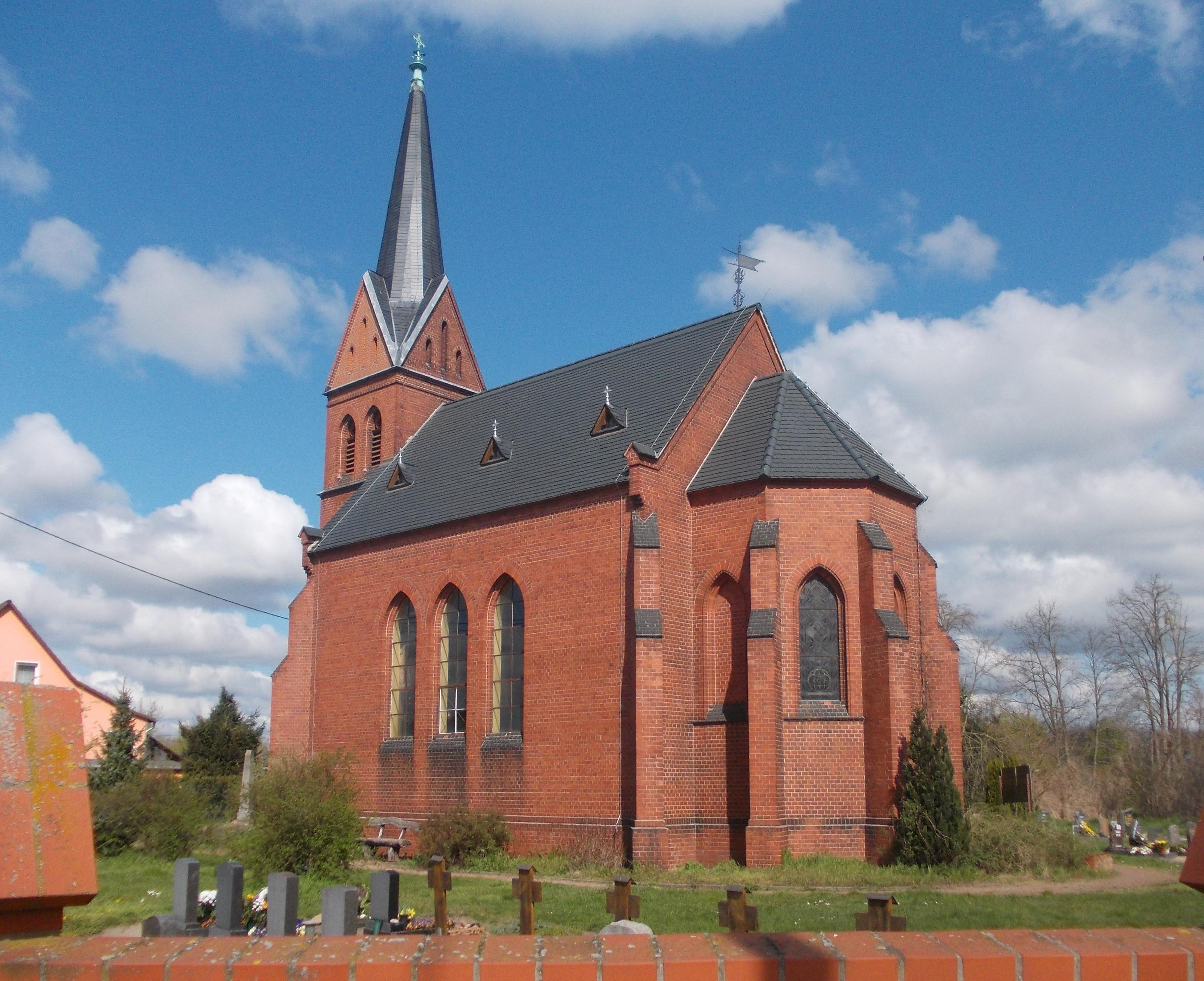 Trebbichau church (Osternienburger Land, Anhalt-Bitterfeld district, Saxony-Anhalt)